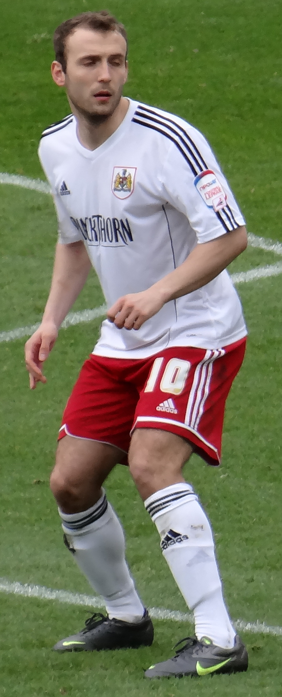 Liam Kelly playing for Bristol City